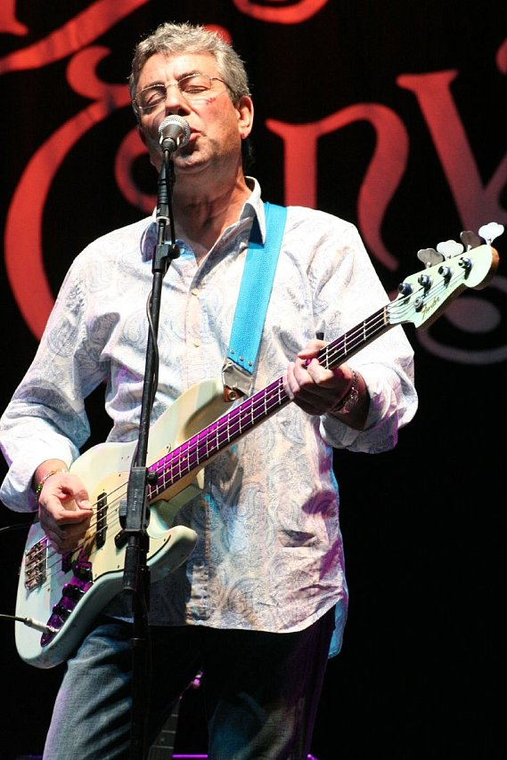 Graham Gouldman, a member of 10cc